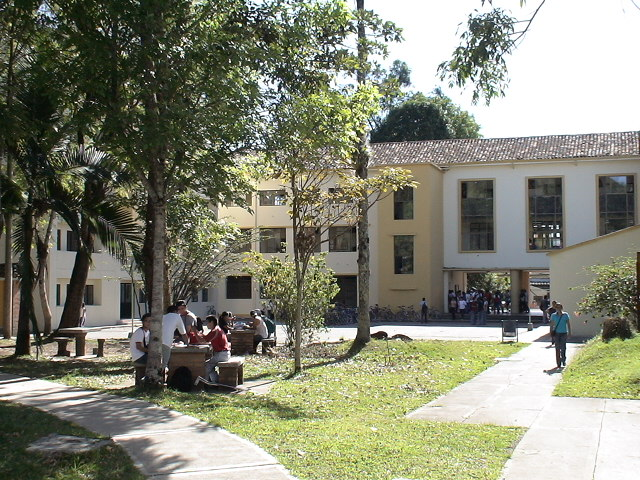 Picture an afternoon in the parking lot of the Faculty of Exact, Natural Sciences and Education, University of Cauca (Popayan, Colombia)